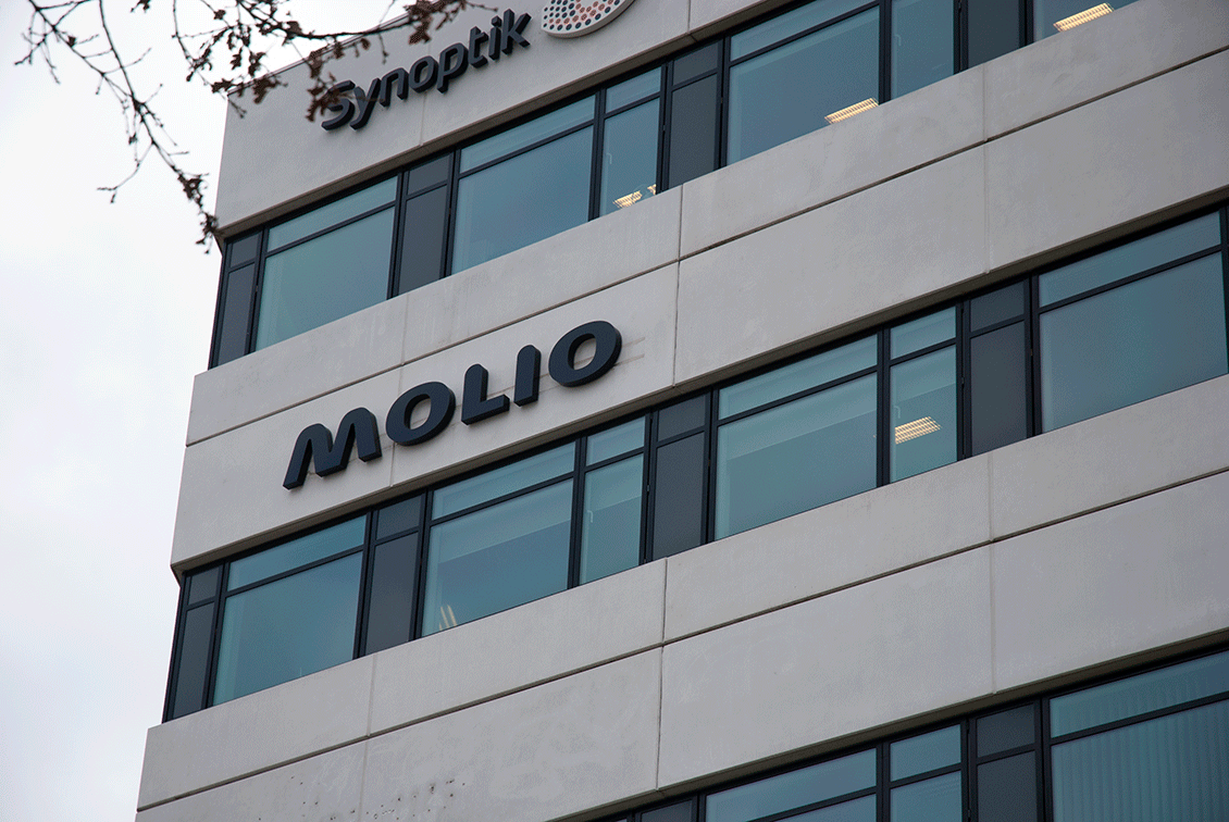 Head office of Molio in Herlev